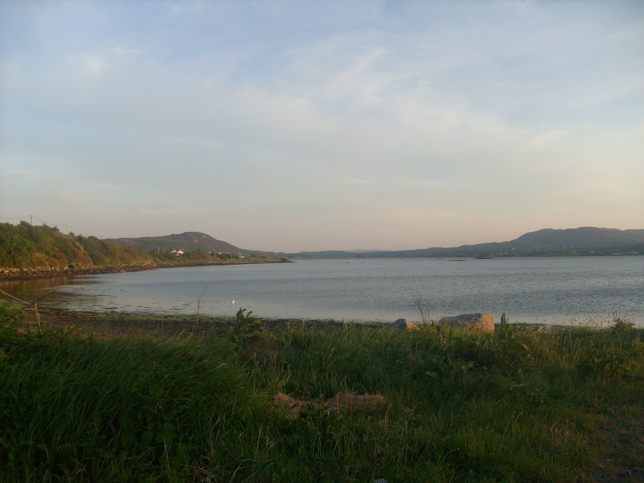 Mulroy Bay, Co Donegal, ÉIRE (Ireland)